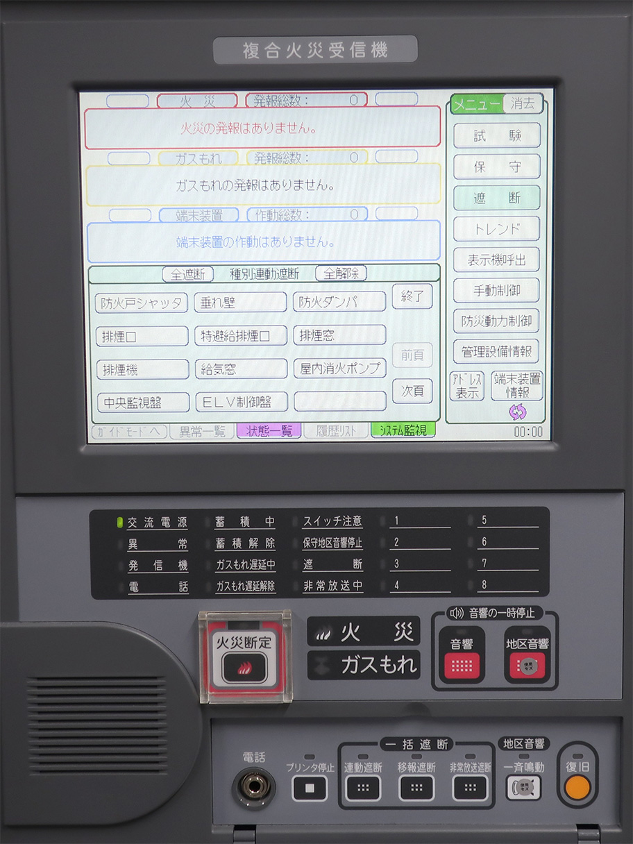 Control panel of GR Fire Alarm System (R-24EⅡ) developed by Nohmi Bosai, Ltd. Its one of the GR Fire Alarm System which is a type of fire fighting systems defined in ministrial order by Ministry of Internal Affairs and Communications in Japan.